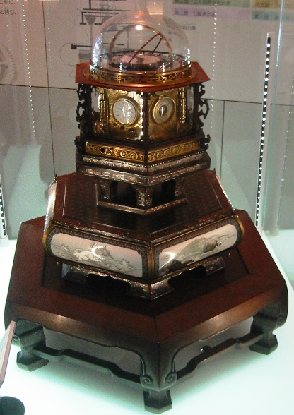 Tanaka Hisashige's perpetual watch in the Tokyo National Science Museum.